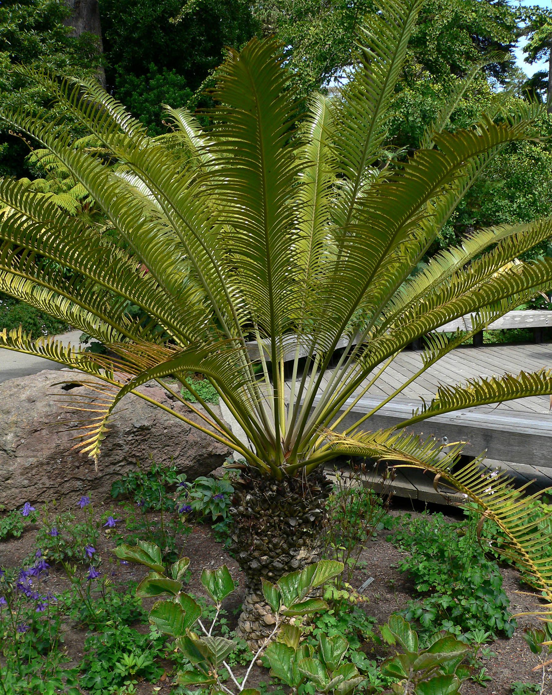 Photo of Lepidozamia peroffskyana at the San Francisco Botanical Garden